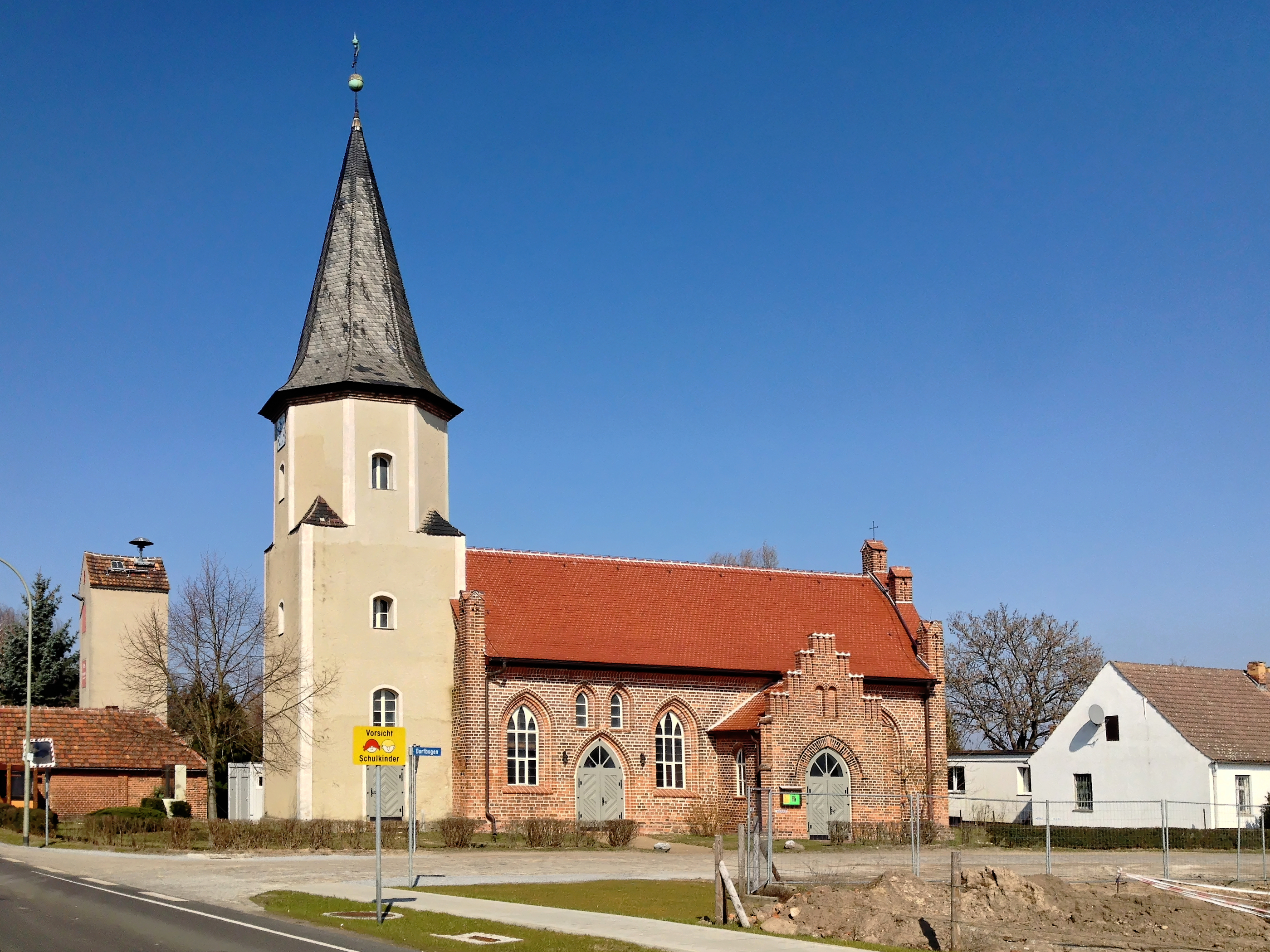 Protestant Church in Hänchen